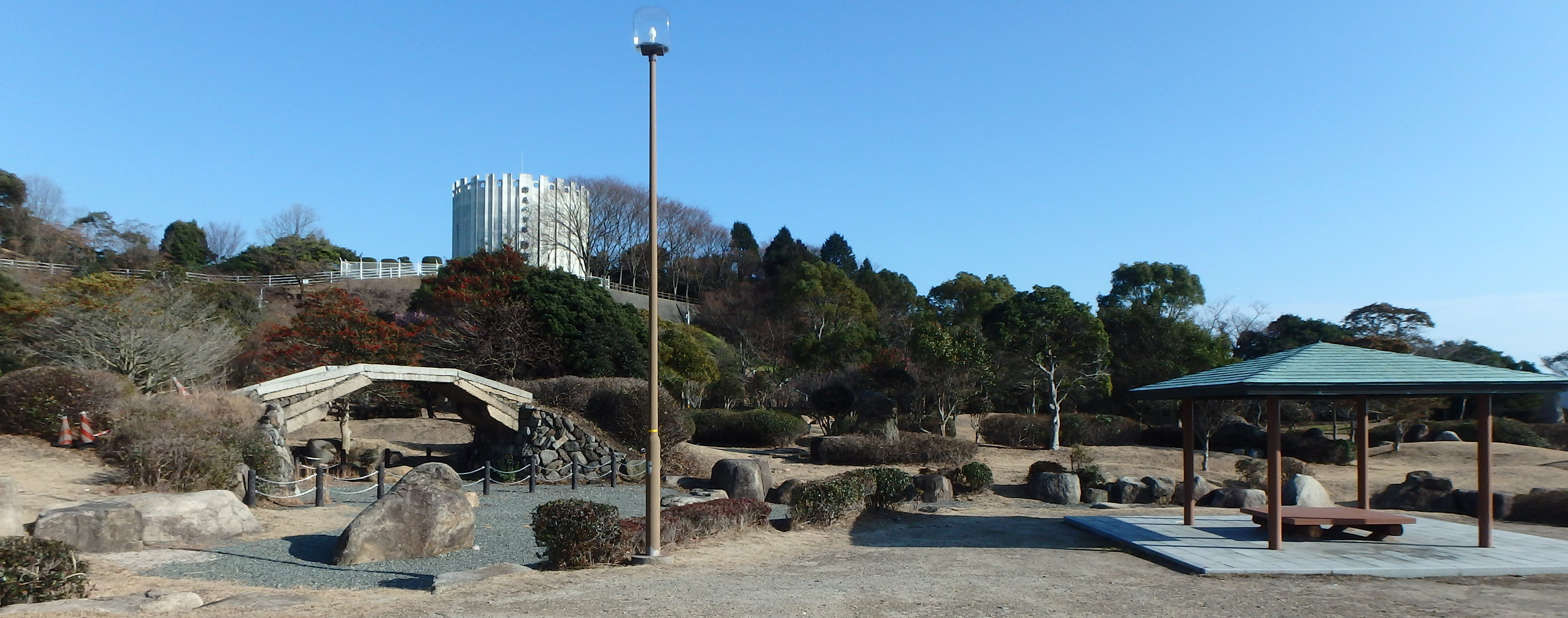 Masutsuaki-Rankan bridge in Sabagawa SA, Yamaguchi prefecture,Japan